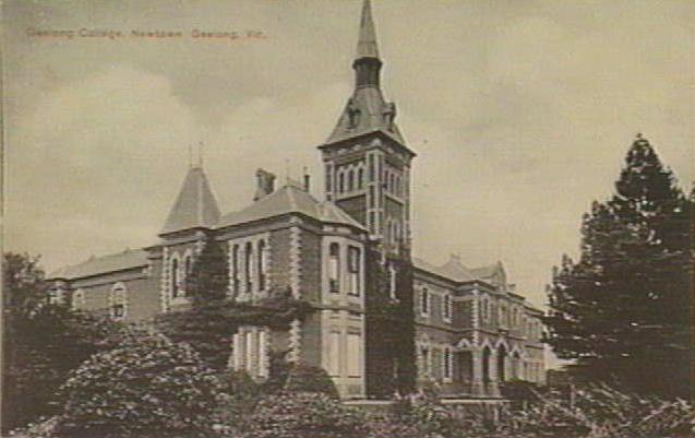 The Geelong College, located in Newtown, Victoria, Australia.